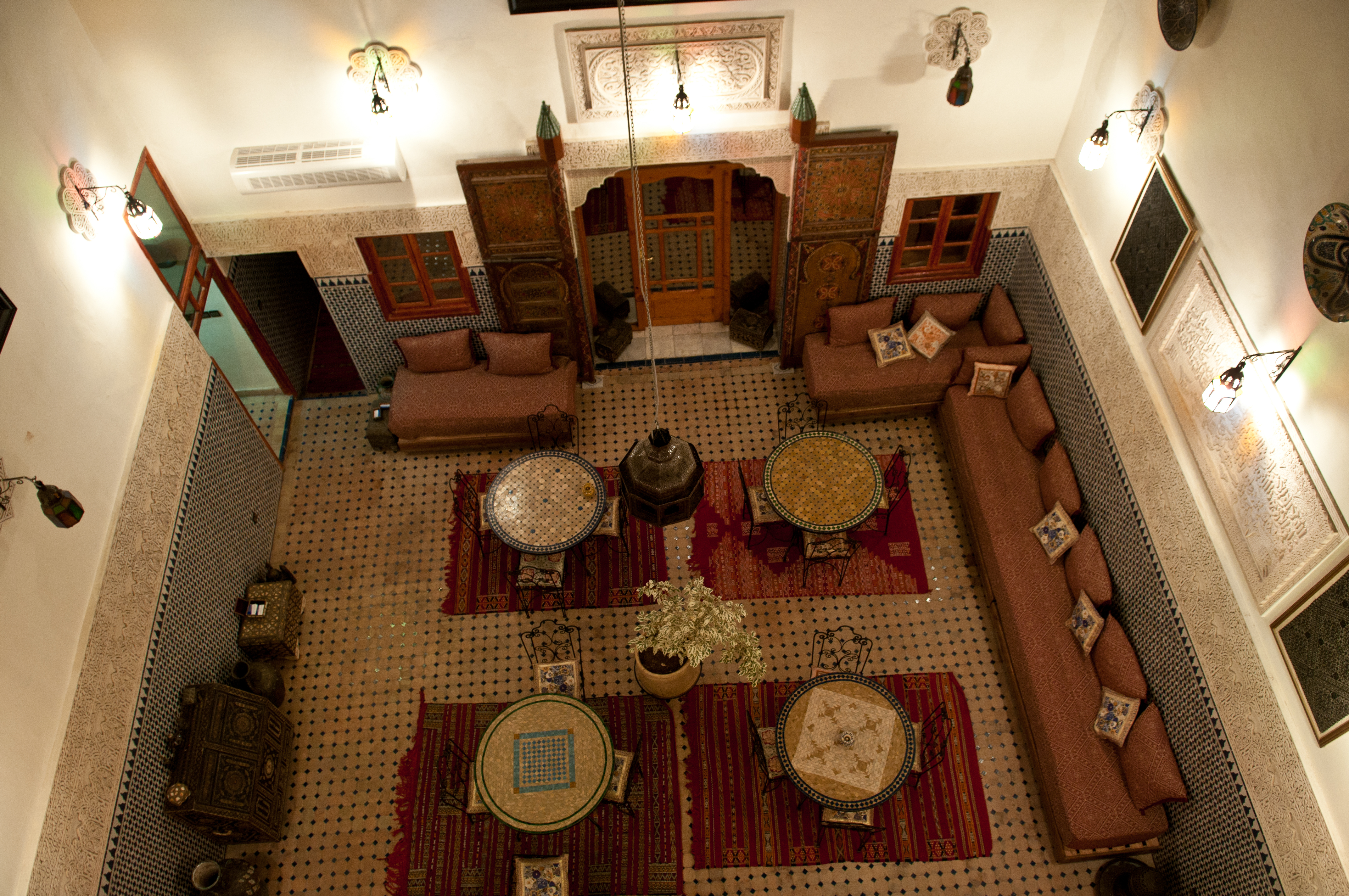 Riad in Fes